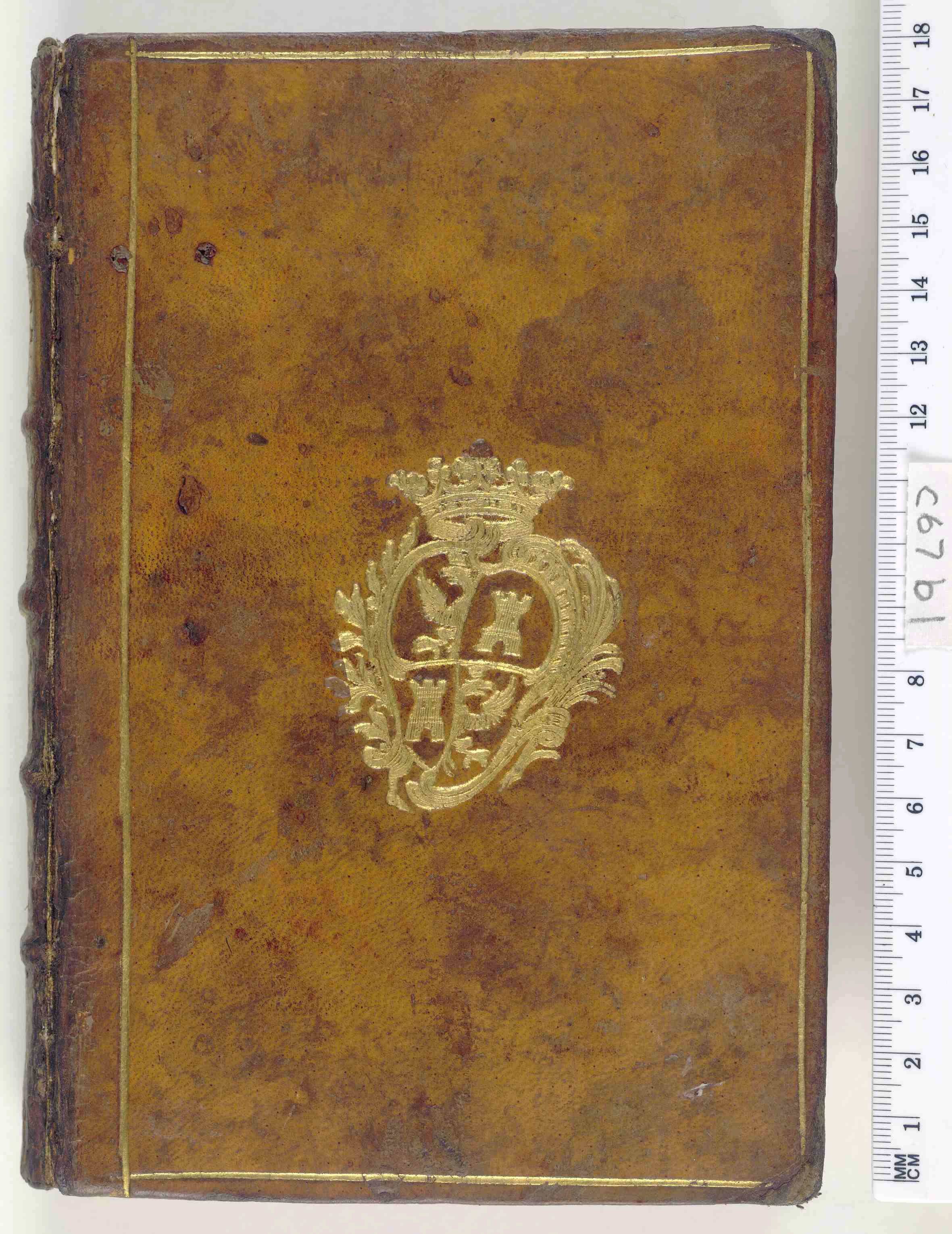 Style: Armorial; Caption: Upper cover; Colour: Brown; Edge: Unspecified